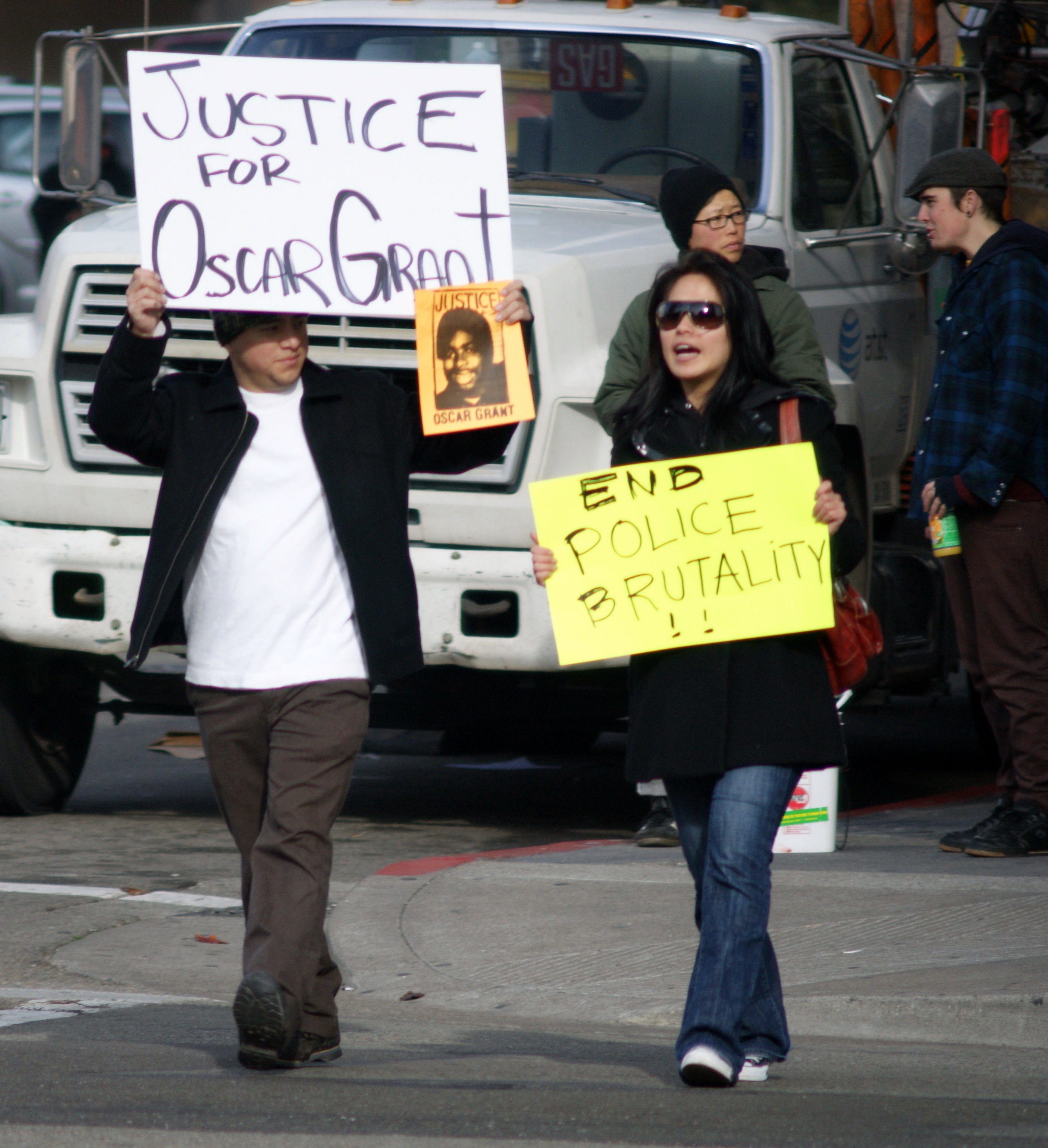 Protestors exspress their opinions in regard to deadly shooting of Oscar Grant III by BART Police.